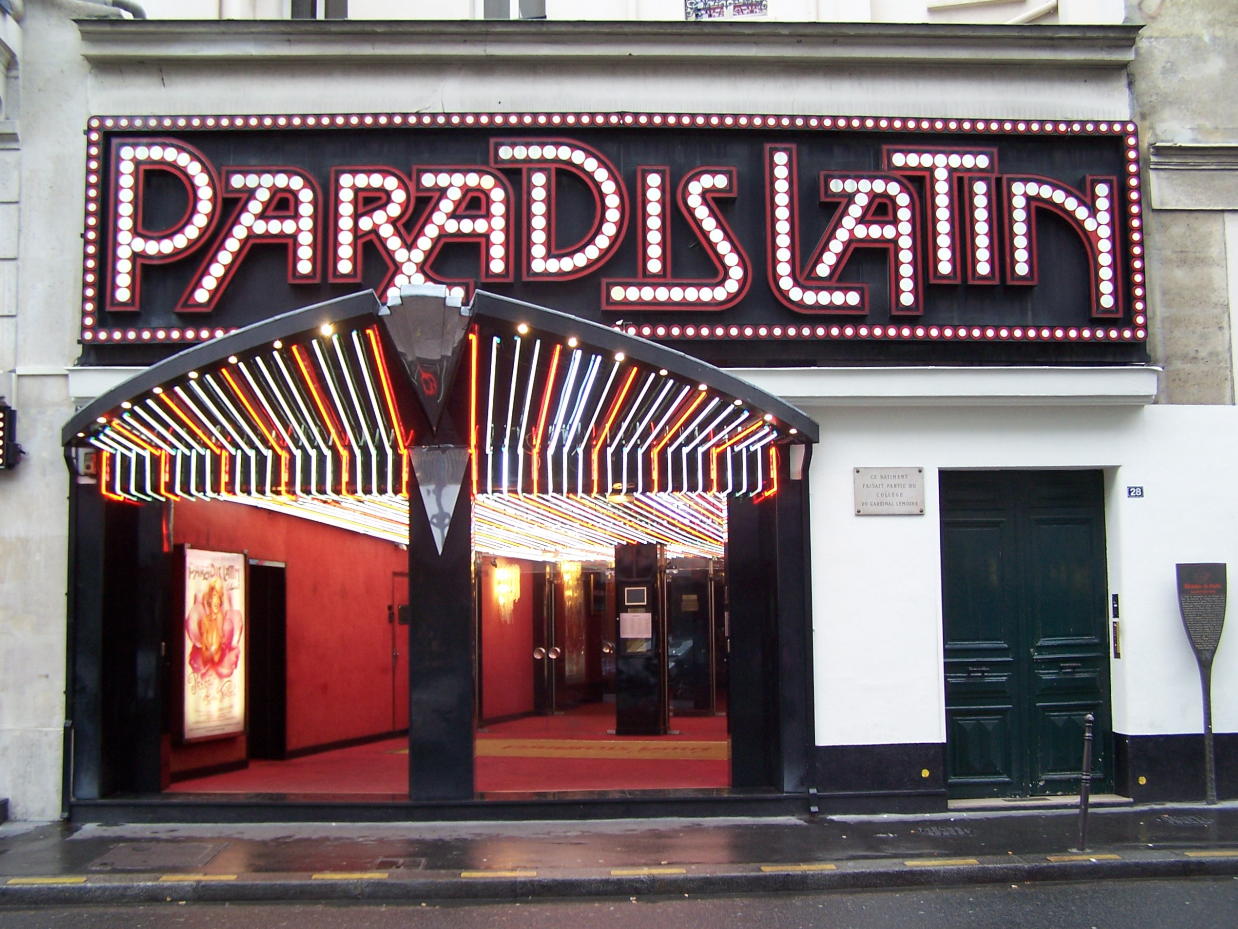 The Paradis Latin cabaret at rue du Cardinal-Lemoine in Paris